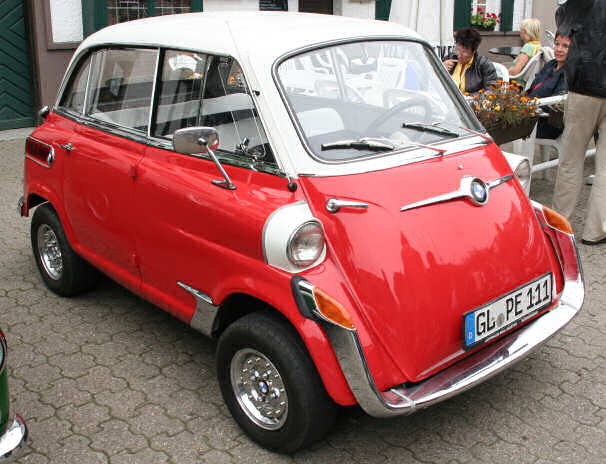 The pictures shows the front view of a BMW 600.